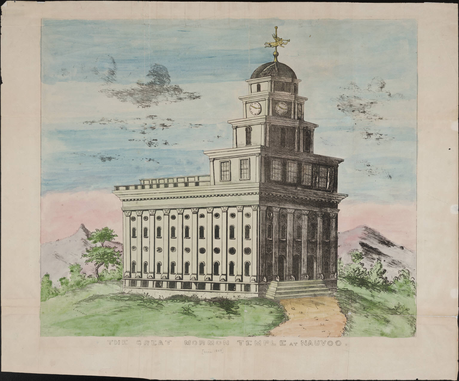 "The Great Mormon Temple at Nauvoo," lithograph, by an unknown author. Yale Collection of Western Americana, Beinecke Rare Book and Manuscript Library, Yale University, New Haven, Connecticut.